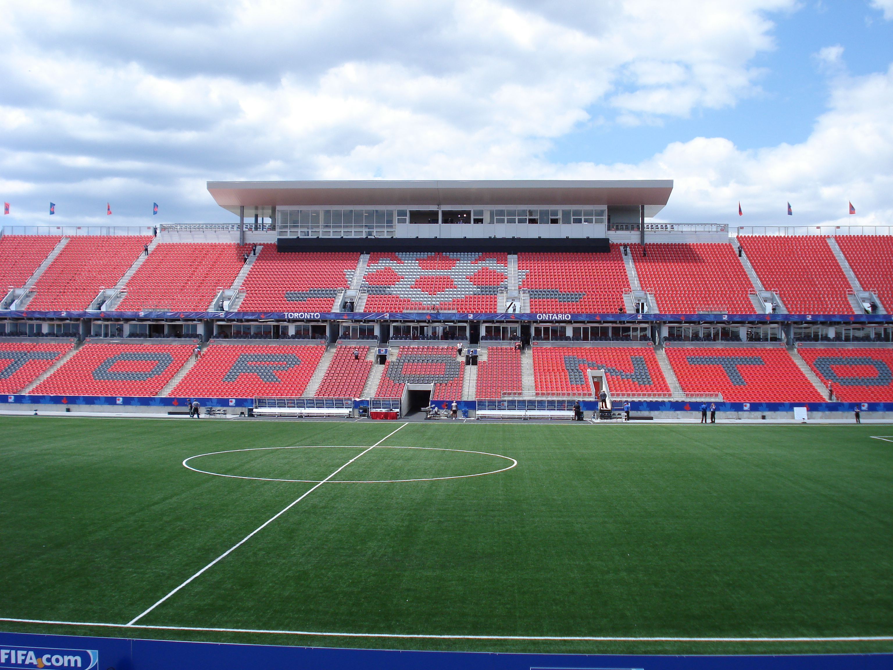 BMO Field, host stadium of the FIFA U-20 World Cup 2007, Canada.